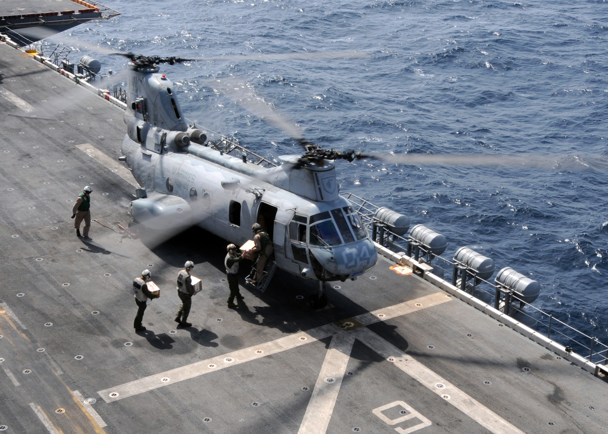 NORTH ARABIAN SEA (Aug. 18, 2010) Marines assigned the U.S. Navy amphibious assault ship USS Peleliu (LHA 5) load supplies onto a CH-46 Sea Knight helicopter assigned to the White Knights of Helicopter Marine Medium Squadron (HMM 165) (Reinforced). The CH-46 will join 11 other helicopters from Peleliu already on station in northern Pakistan. The Peleliu Amphibious Ready Group is supporting the Pakistani government and military with helicopter heavy-lift capabilities in flooded regions of Pakistan. (U.S. Navy photo by Mass Communication Specialist 2nd Class Andrew Dunlap/Released)